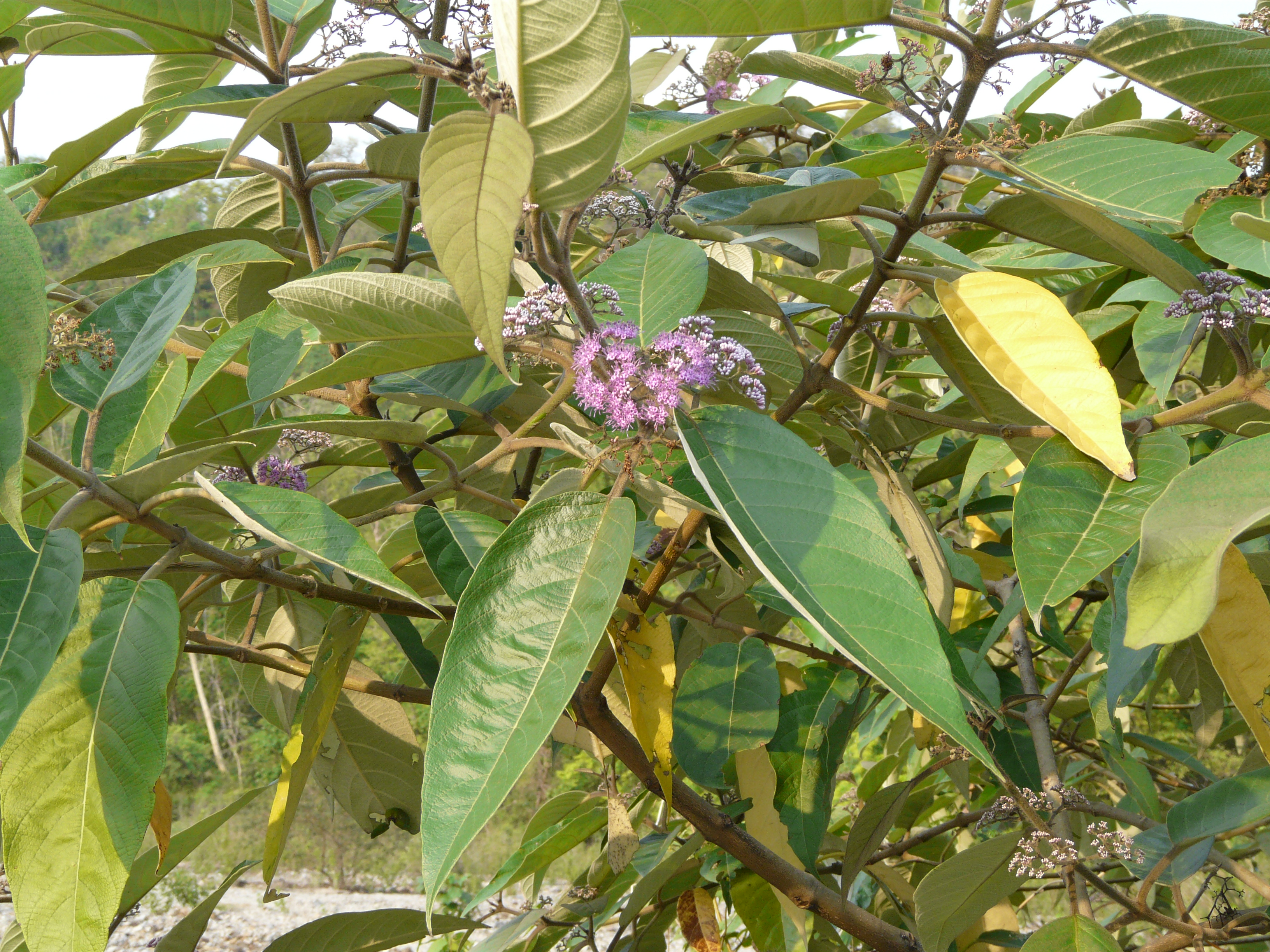 Flowering Callicarpa macrophylla